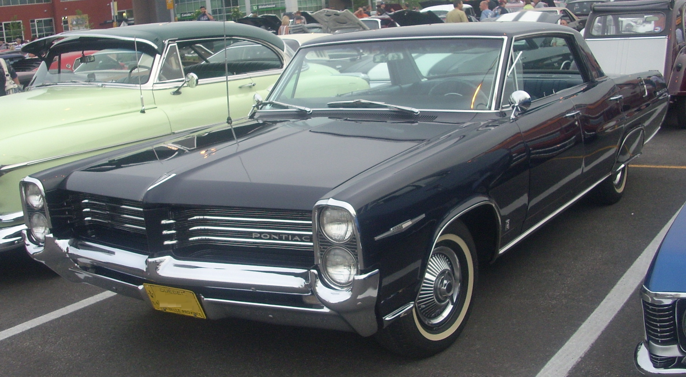 1964 Pontiac Parisienne photographed in Laval, Quebec, Canada at Centropolis Laval.